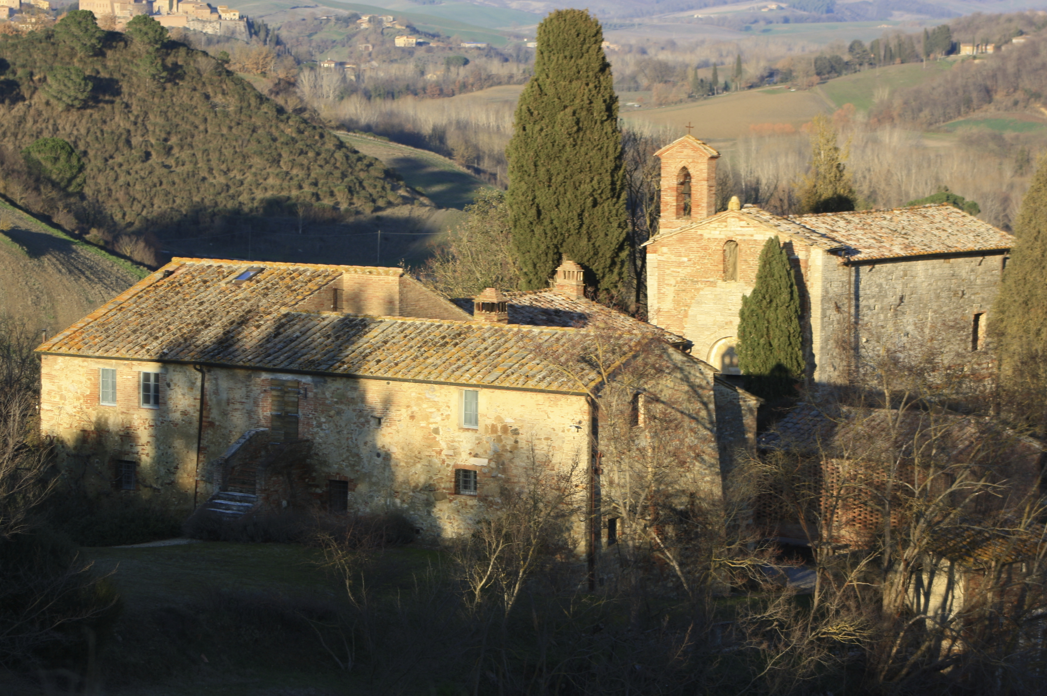 Pieve a Pava, hamlet of Montalcino, Province of Siena, Tuscany, Italy